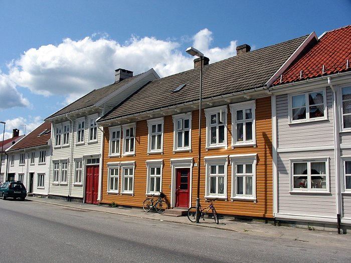 Kristiansand, Tollbodgata 78, Norway